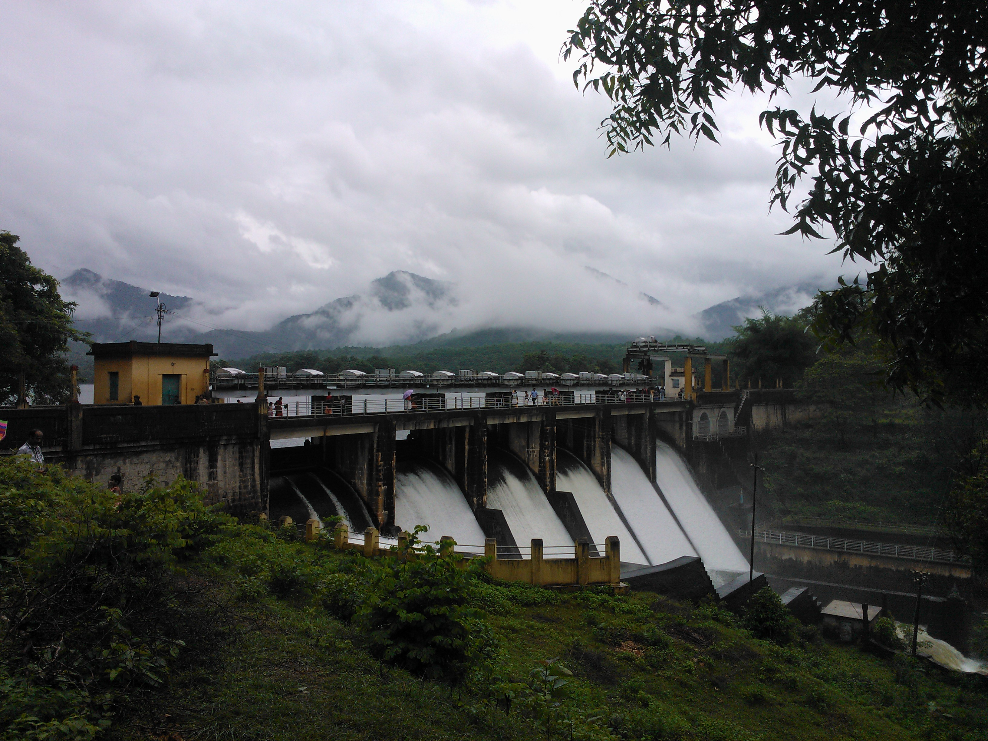 photograph of mangalam dam